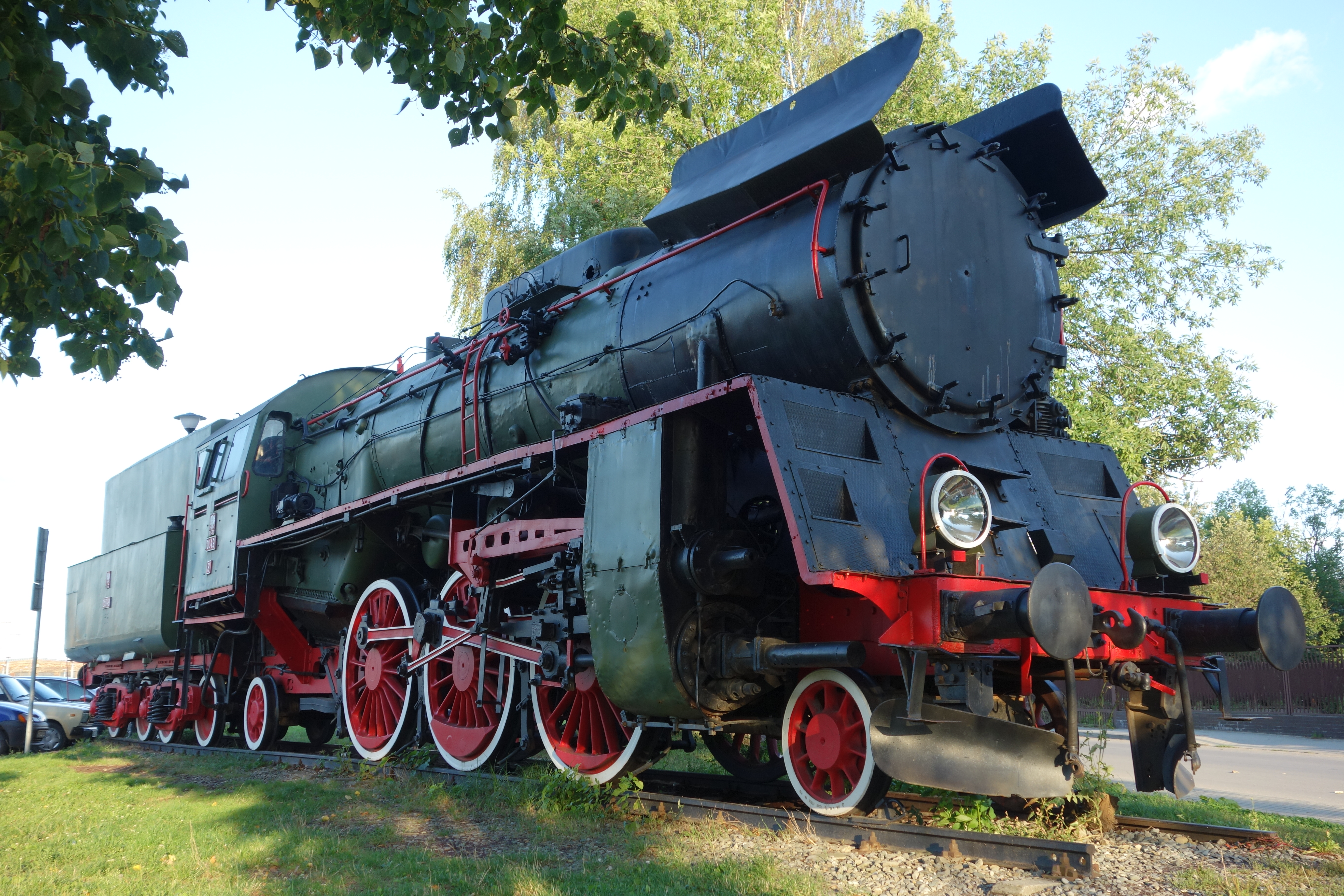 Przeworsk - parowóz Ol49-8 This photo was taken during Railway Wikiexpedition 2014 set up by Wikimedia Polska Association in cooperation with Fundacja Grupy PKP. You can see all photographs in category Wikiekspedycja kolejowa 2014.